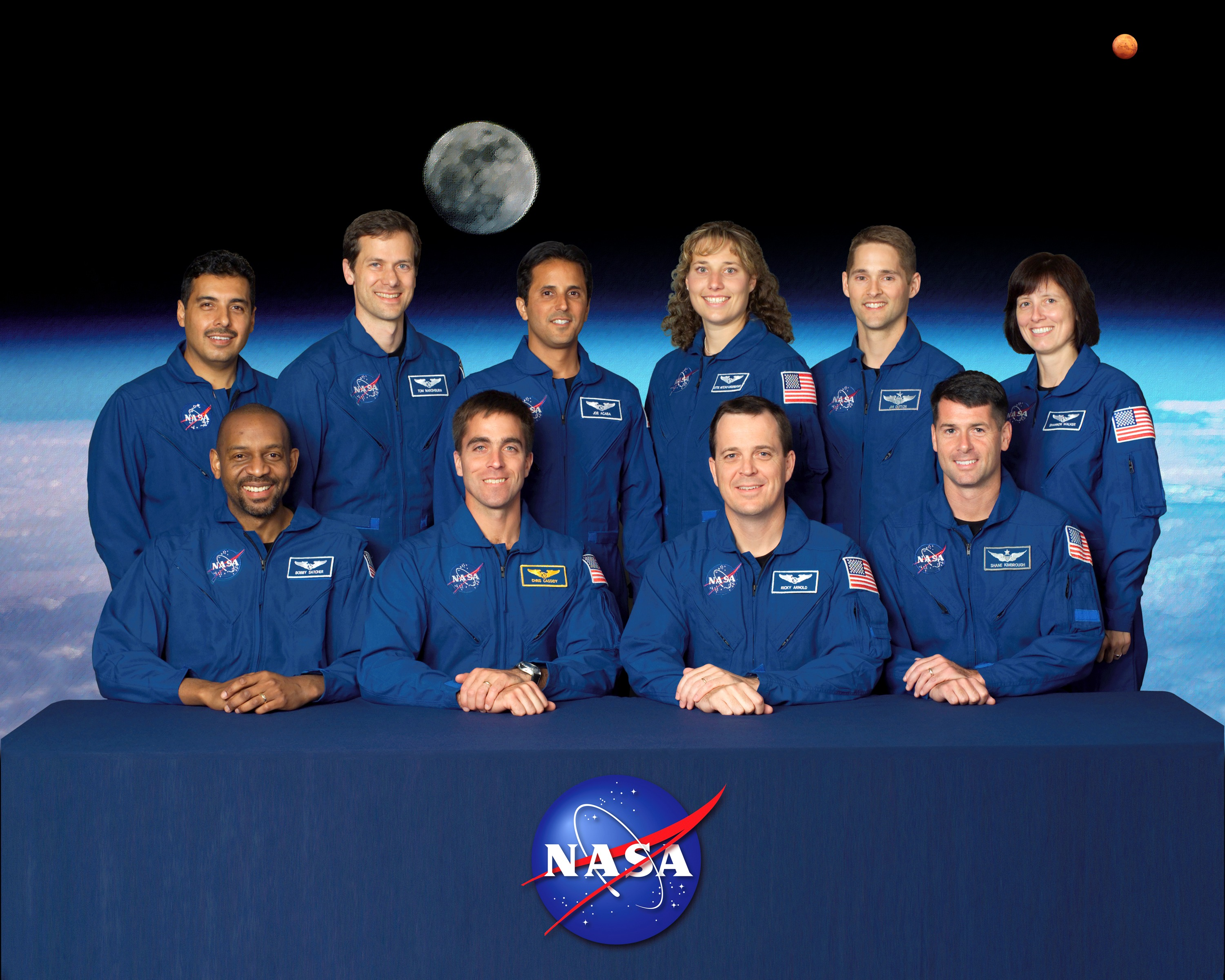 JSC2004-E-21446 (For Release: 6 May 2004) --- NASA has announced the 11-member 2004 class of astronauts. Pictured are (first row, left to right), Robert L. (Bobby) Satcher Jr., Christopher J. (Chris) Cassidy, Richard R. (Ricky) Arnold II and Robert S. (Shane) Kimbrough; (second row) Jose M. Hernandez, Thomas H. (Tom) Marshburn, Joseph M. (Joe) Acaba, Dorothy M. (Dottie) Metcalf-Lindenburger, James P. (Jim) Dutton Jr. and Shannon Walker. Not pictured is Randolph J. (Randy) Bresnik